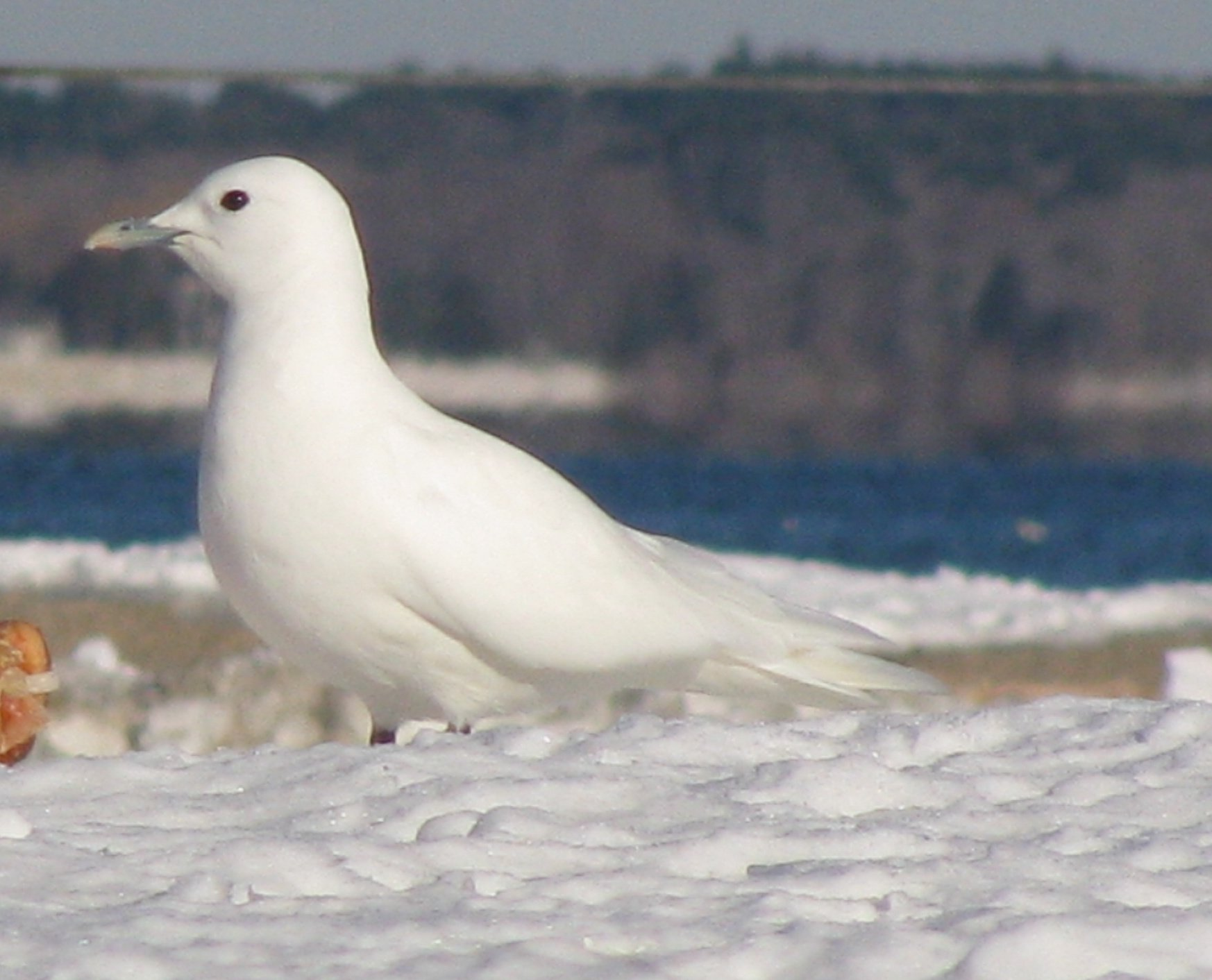 Ivory Gull, Pagophila eburnea in Plymouth MA feeding on a chicken carcass